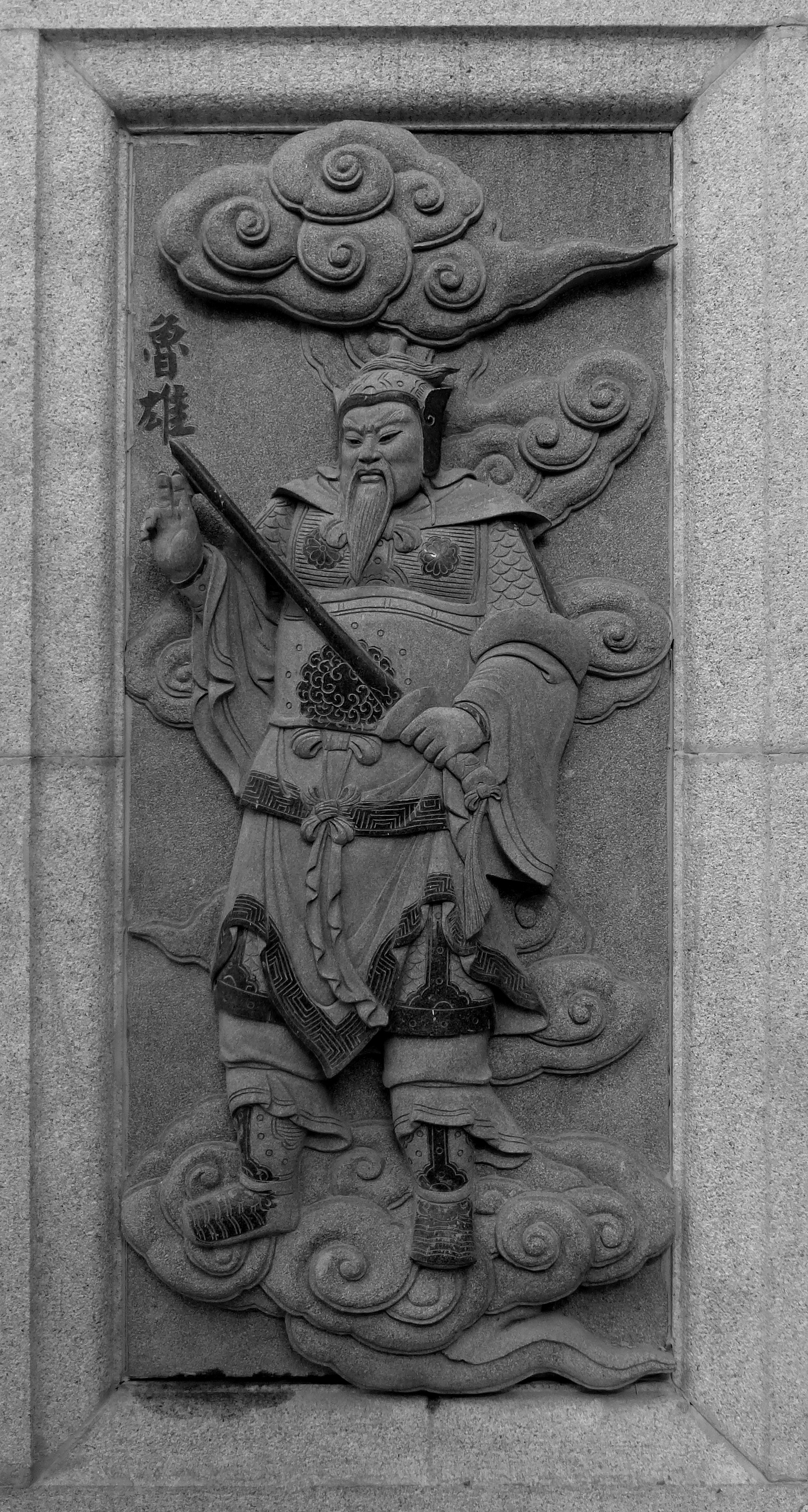 101 Lu Xiong, Investiture of the Gods at Ping Sien Si, Pasir Panjang, Perak, Malaysia Photograph from the Ping Sien Si Temple in Perak, Malaysia taken by Anandajoti.